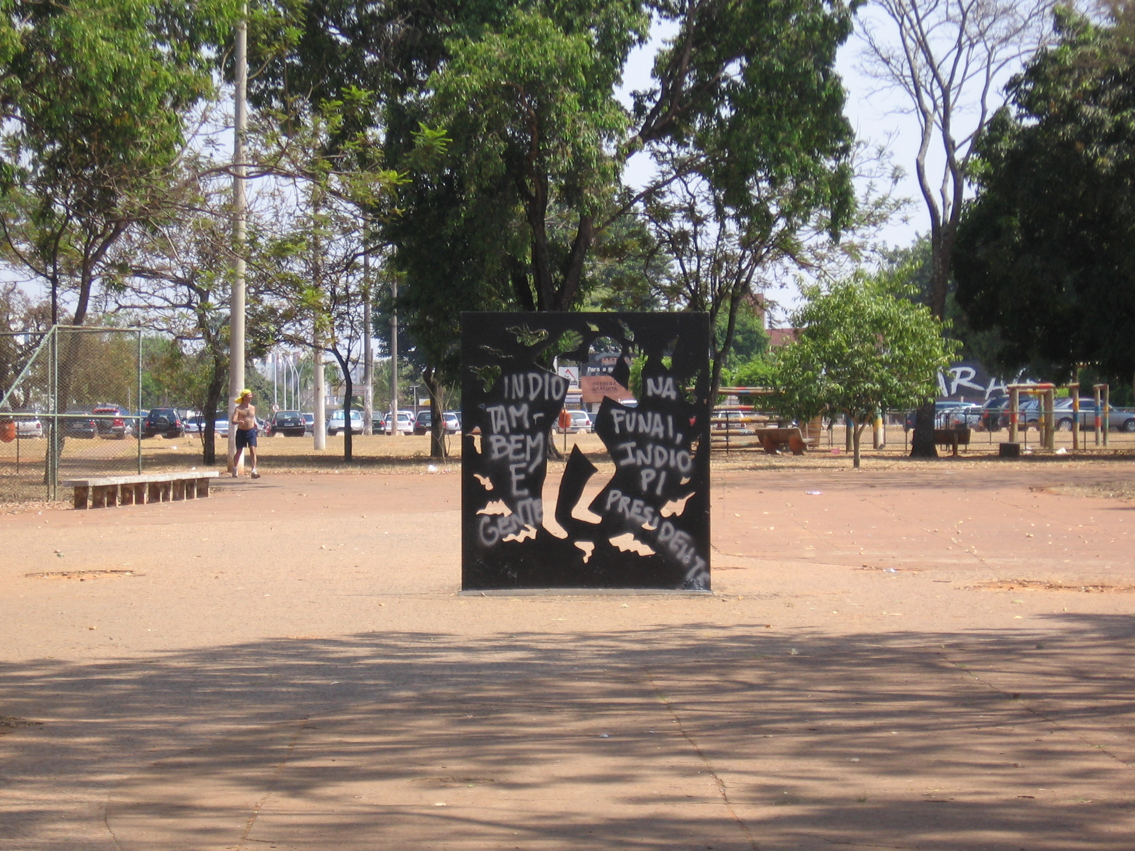 Picture of Compromise Square in Brasilia, Brazil